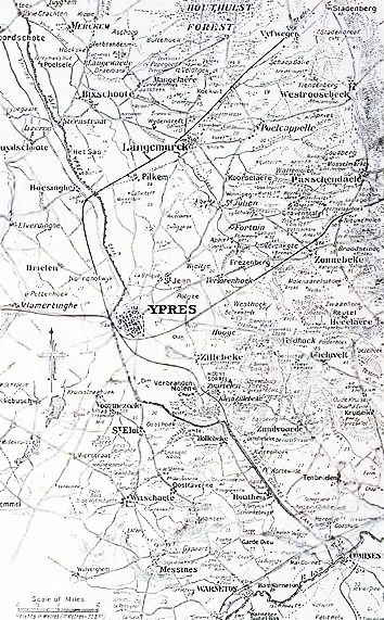 Map of Ypres area, late 1917